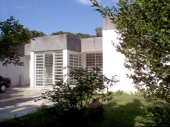 Outside view, image from the Archaeological Museum, Poliyiros, Central Macedonia, Greece